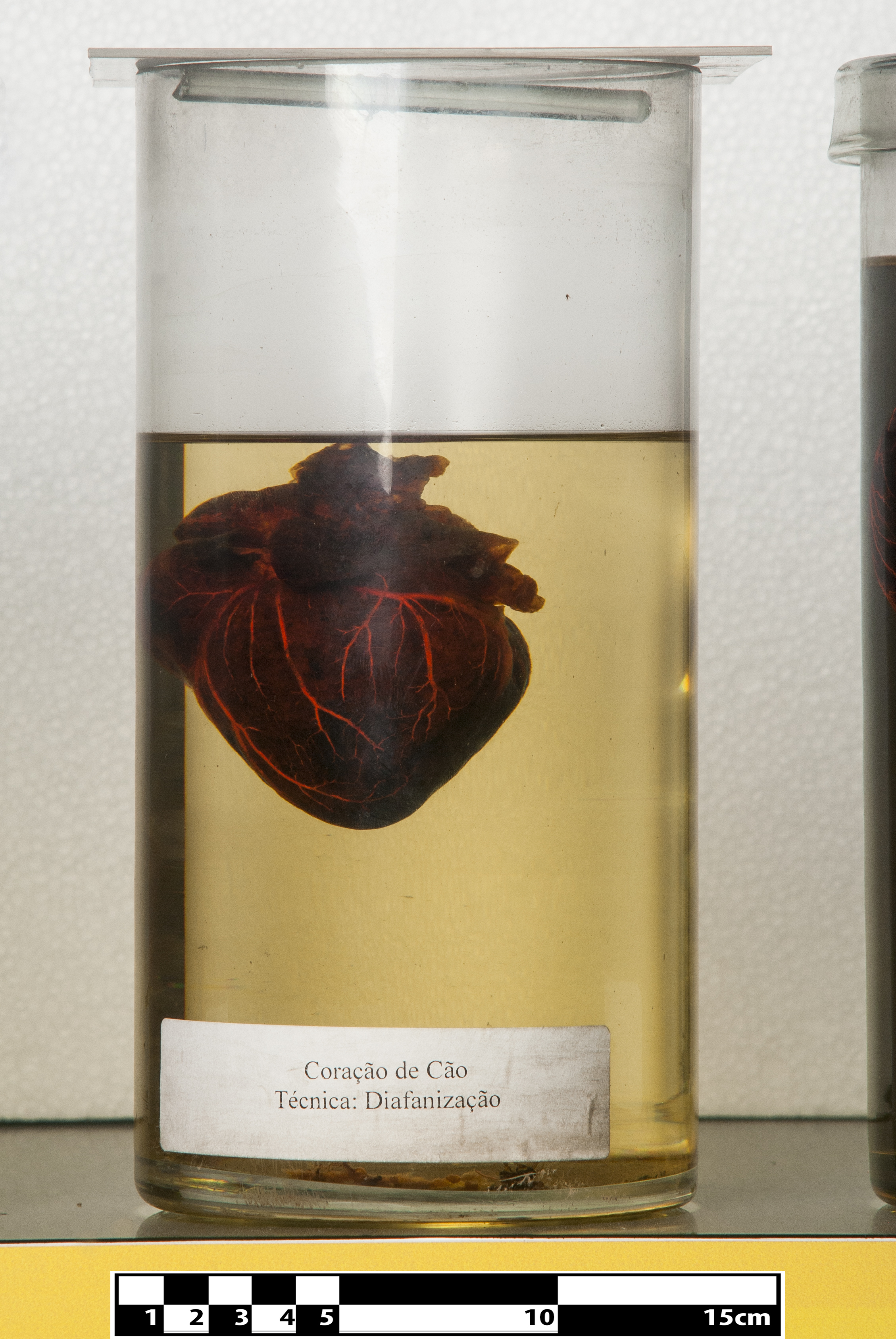 Dog heart. Canis lupus familiaris Gelatin injection and Spalteholz diaphanization – specimen clarified for visualization of anatomical structures on display at the Museum of Veterinary Anatomy, FMVZ USP. Spalteholz diaphanization is a tissue clearing technique, described here. This file was published as the result of a partnership between the Museum of Veterinary Anatomy FMVZ USP, the RIDC NeuroMat and the Wikimedia Community User Group Brasil. This GLAM project is reported. Photography: Museum of Veterinary Anatomy FMVZ USP. Author: Wagner Souza e Silva.